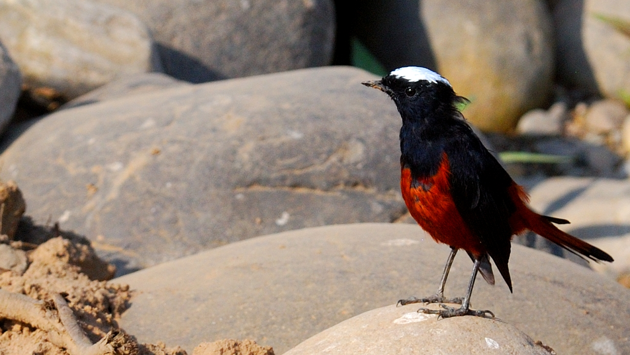 The White-capped Water-redstart (Chaimarrornis leucocephalus) is a species of bird of the Muscicapidae family, in the monotypic genus Chaimarrornis. The generic name of this species is derived from the Greek kheimarrhos meaning torrent and ornis meaning bird Male with larger white pattern on top of the head and brown red spots under the wings It is found in Afghanistan, Bhutan, China, India, Laos, Myanmar, Nepal, Pakistan, Tajikistan, Thailand, and Vietnam. Its natural habitat is temperate forests. Spotted from Jim Corbett National Park , India.